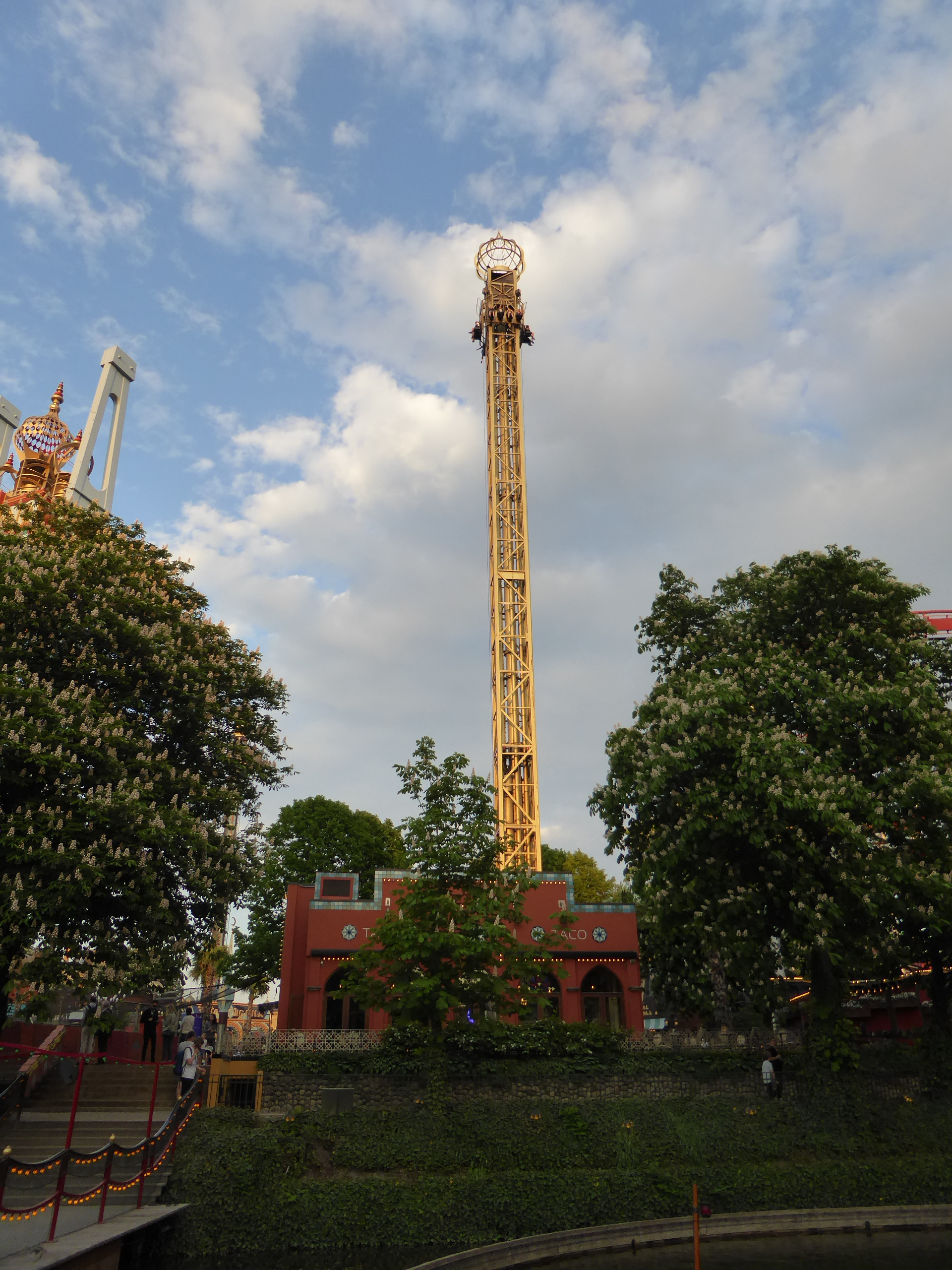 The ride Det Gyldne Tårn (the Golden Tower) in the amusement park Tivoli in Copenhagen.